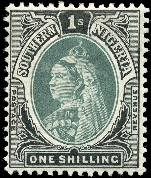 Southern Nigeria 1sh green & black stamp of 1901, SG N°6.